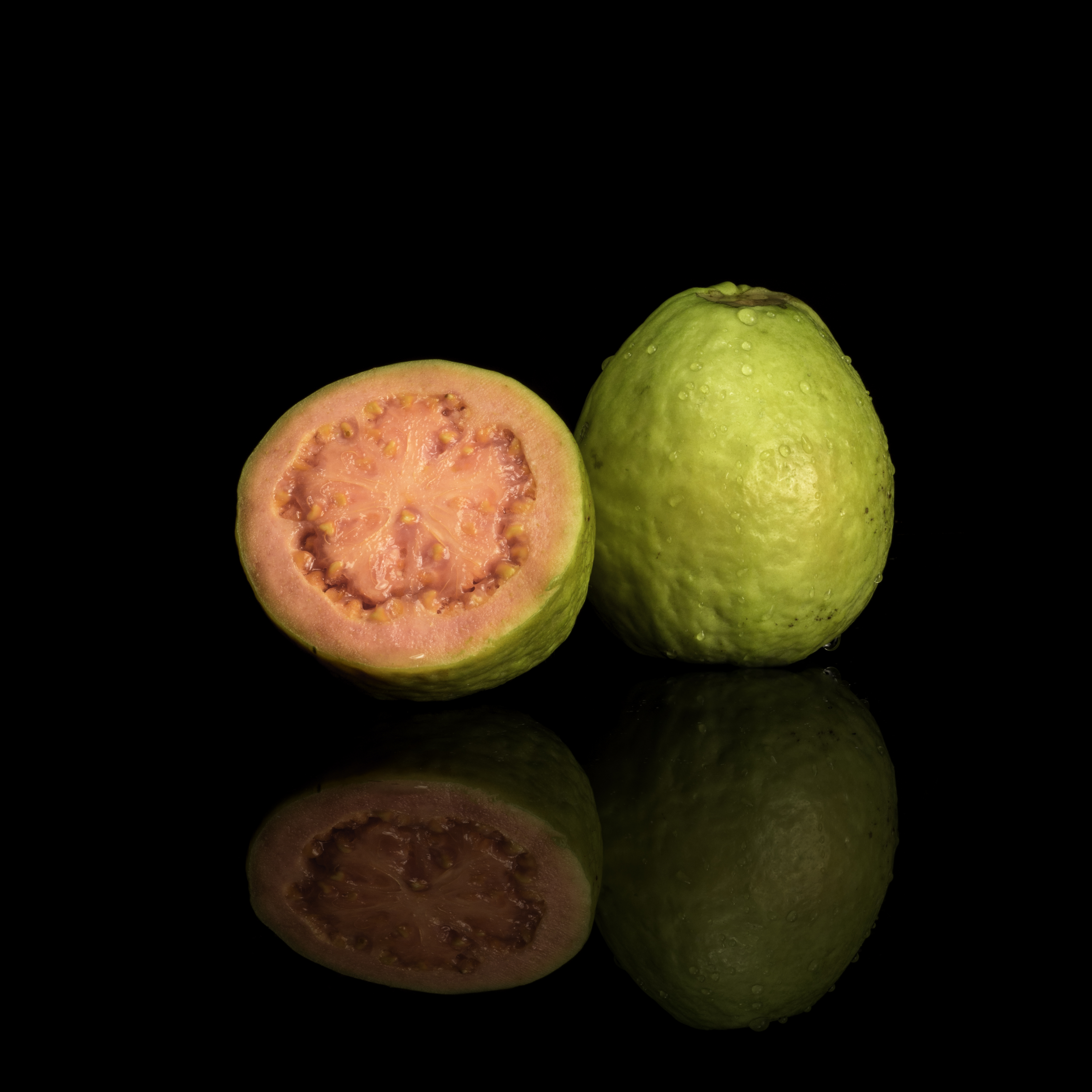 Red guava (Psidium guajava) on a black background.